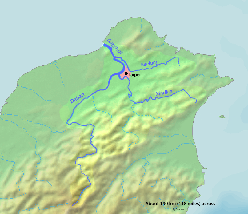 Map of the Tamshui River watershed, which drains much of northern Taiwan into the Taiwan Strait.